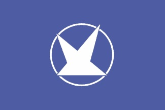 Flag of Tomiya Miyagi